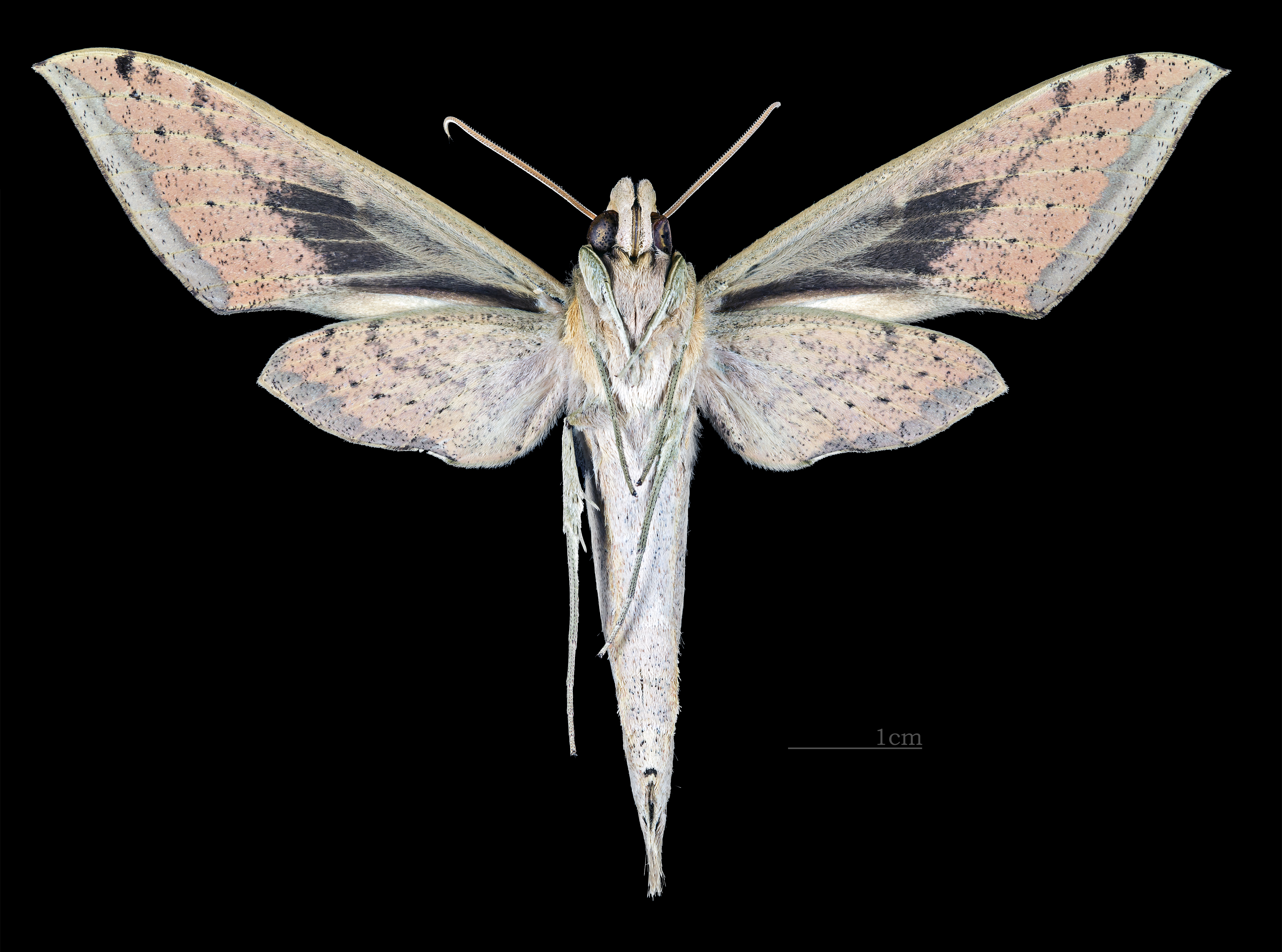 Xylophanes anubus - △ Ventral side